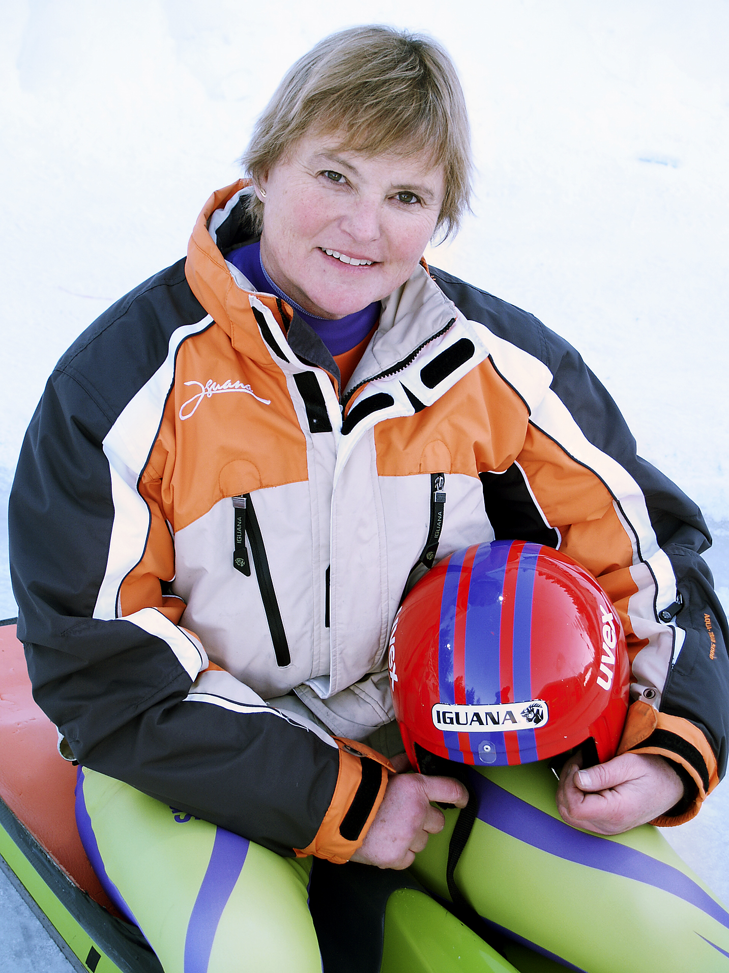 Anne Abernathy, six-time Olympic luger. Photograph taken in Tutu, Saint Thomas Island, VI on January 11, 2006